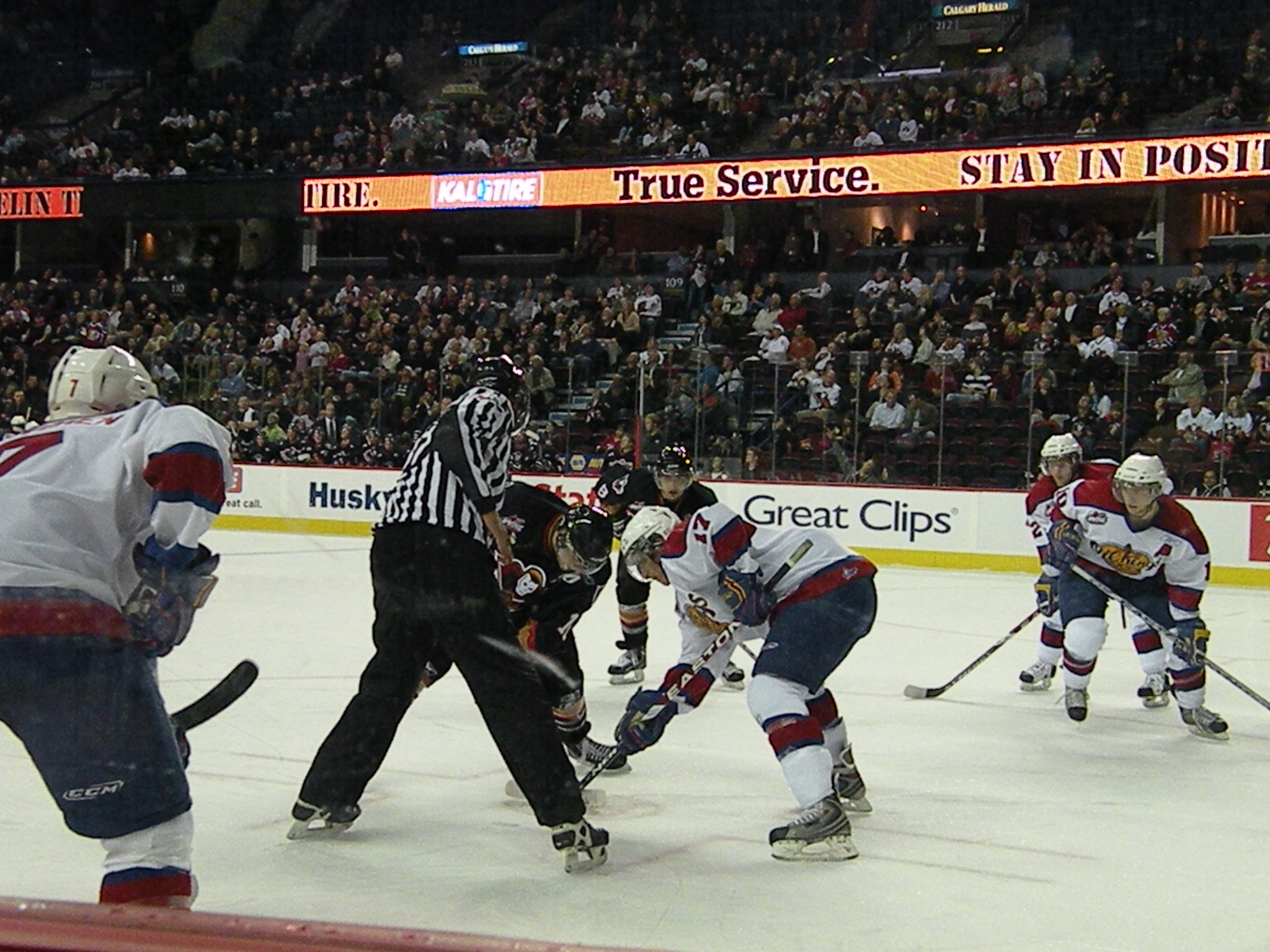 Western Hockey League action between the Calgary Hitmen and Edmonton Oil Kings.